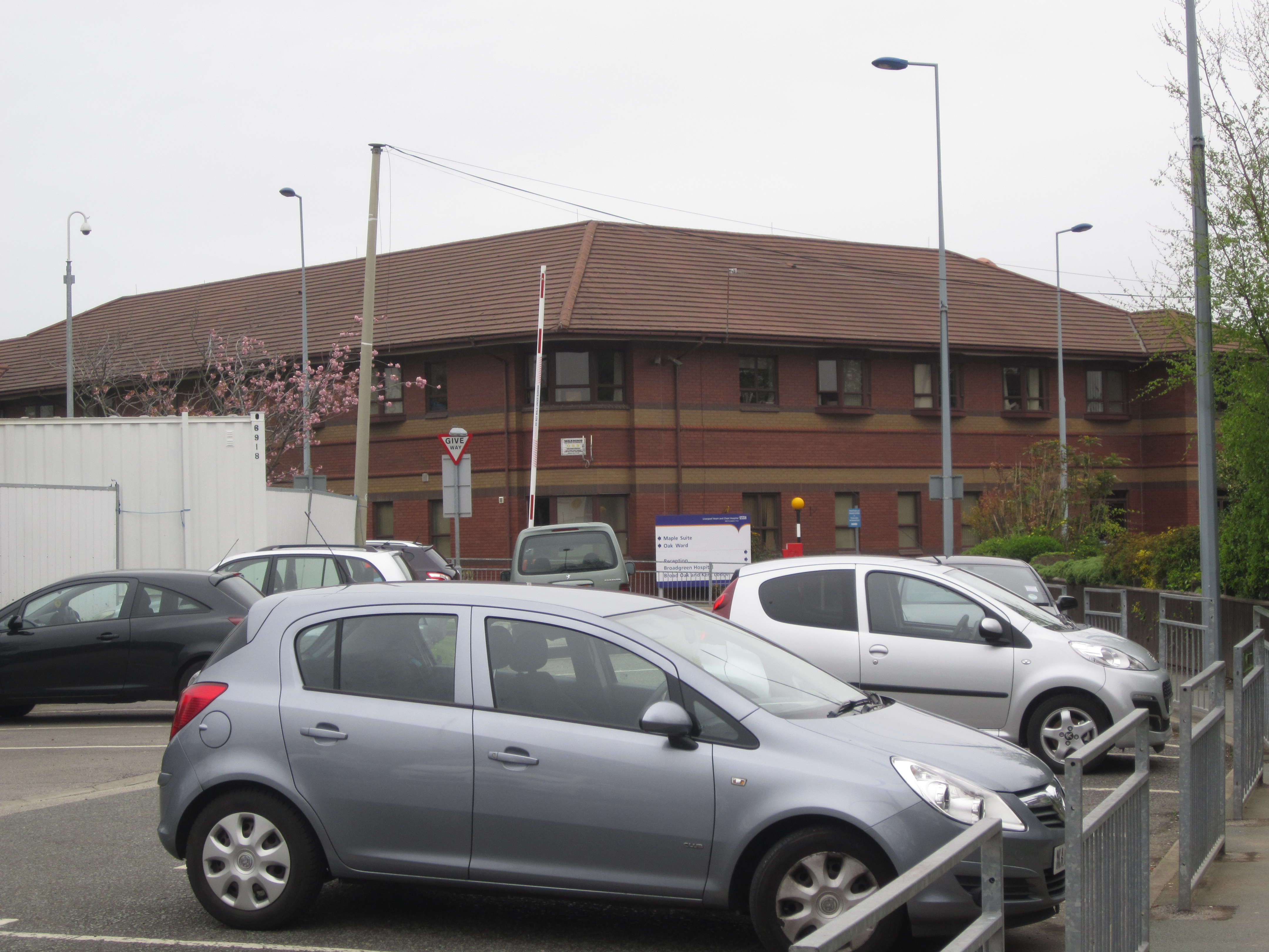 Looking towards the Liverpool Heart and Chest Hospital from the entrance on the corner of Queens Drive and Thomas Drive.